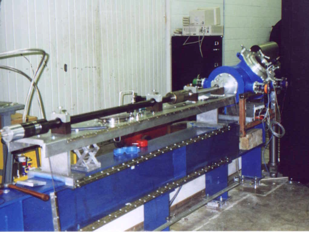 Hypervelocity test gun. The gun uses hydrogen, compressed by a piston driven by a shotgun shell, to accelerate small particles to a velocity of 7 km/s.